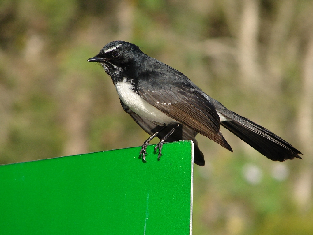 Flycatcher fantail Willie Wagtail Cute Australian bird. It wiggles its tail on the ground and fan-tail in flight View larger: B l a c k M a g i c